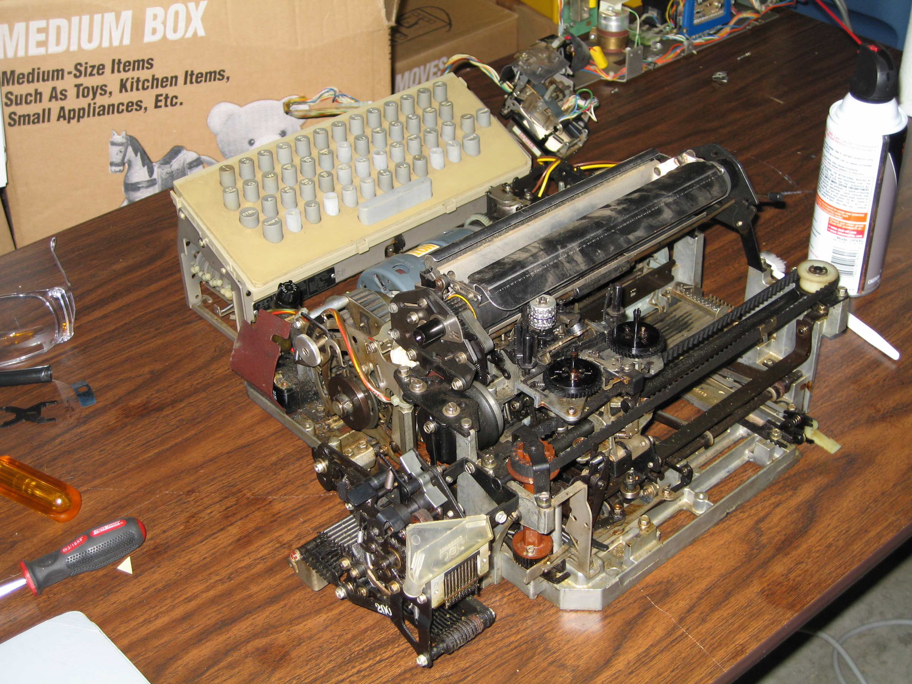 The guts of the ASR 33, strewn about my workbench. It actually comes apart really easily. It's very modular. Unplug a few cables, and the main type mechanism literally lifts right out. The other pieces aren't much harder.